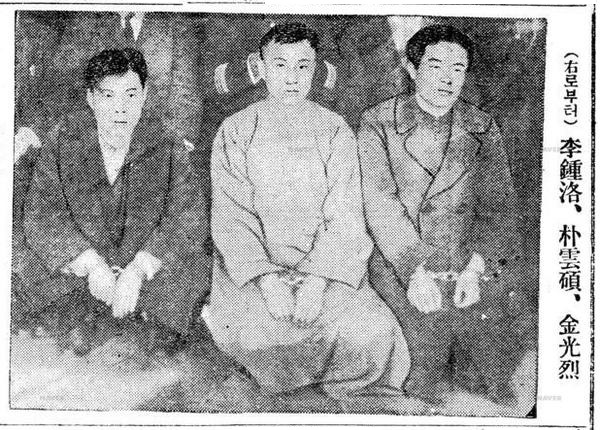 Arrested Lee Jong-rak(李鍾洛), Kim Il-sung's boss. From right : Lee Jong-rak, Park Un-suk(朴雲碩), Kim Kwang-ryul(金光烈); 1931-02-03 Dong-a Ilbo page 2.